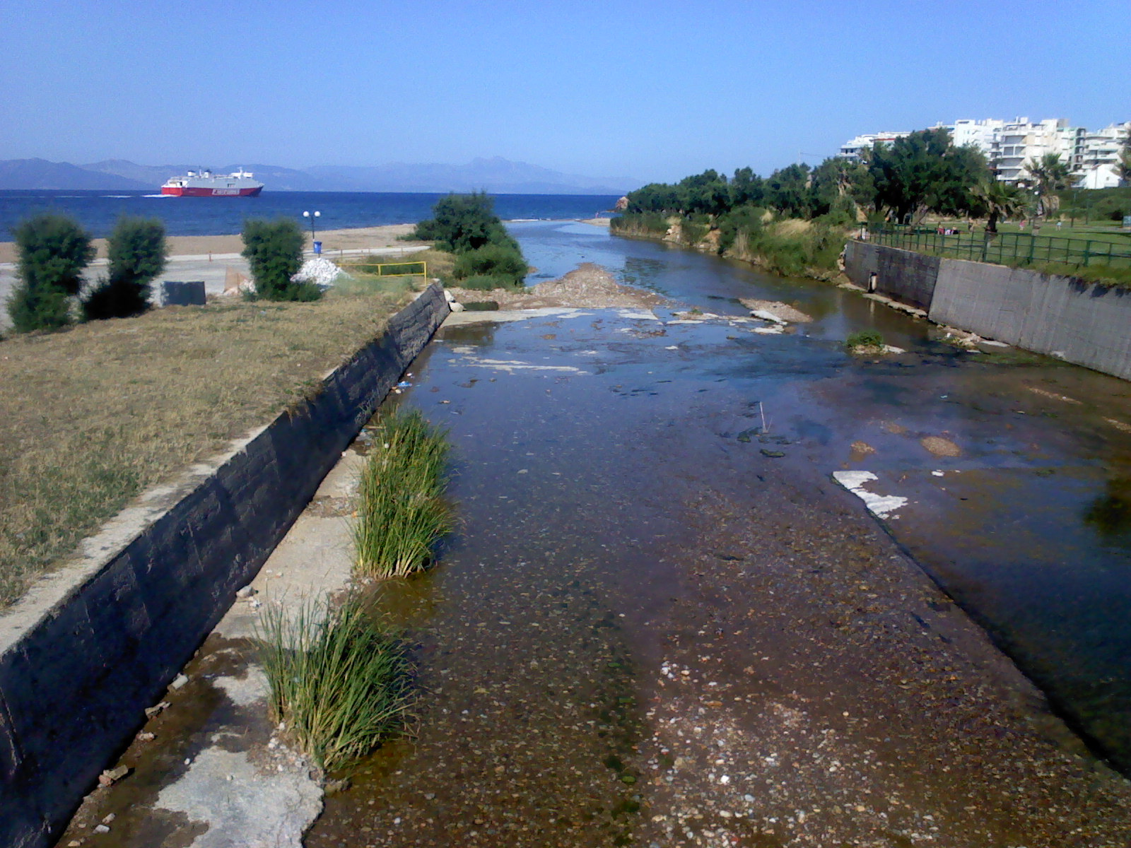 Rema Rafinas